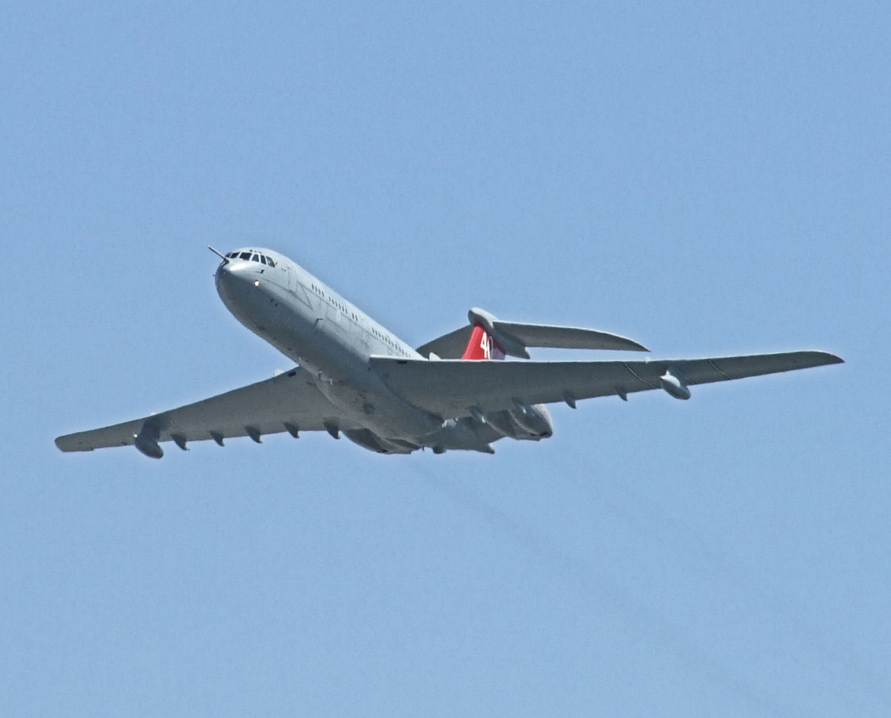 A Royal Air Force VC10 Air Tanker with markings celebrationg 40 years oof the VC10 tanker